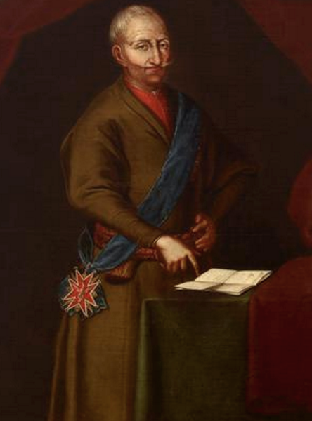 Franciszek Stadnicki